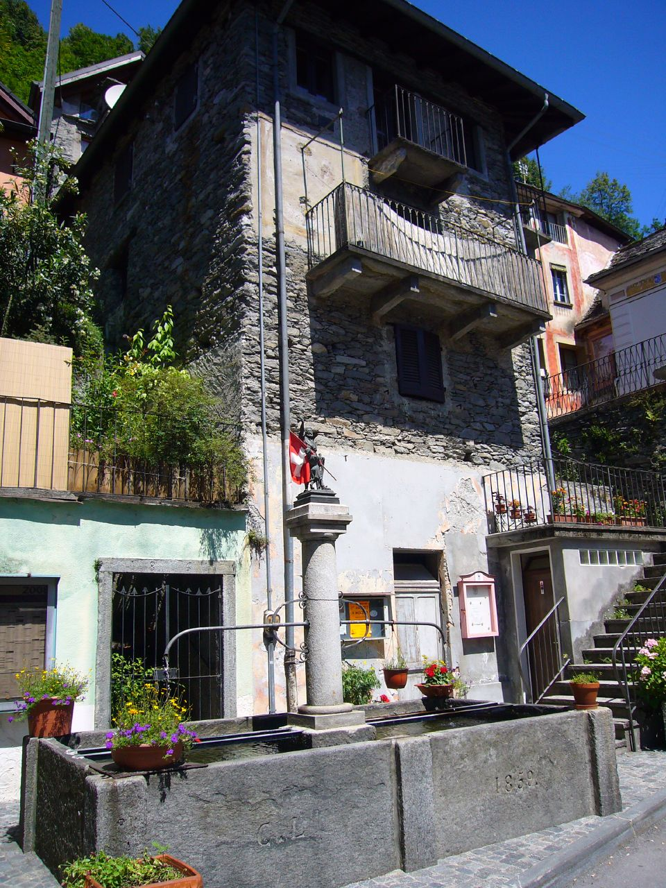 House near Isorno, Ticino, Switzerland